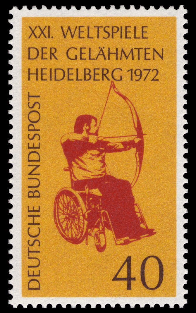 Paralympic games 1972 in Heidelberg in Graphics by Schwarz Ausgabepreis: 40 Pfennig First Day of Issue / Erstausgabetag: 18. Juli 1972 Michel-Katalog-Nr: 733